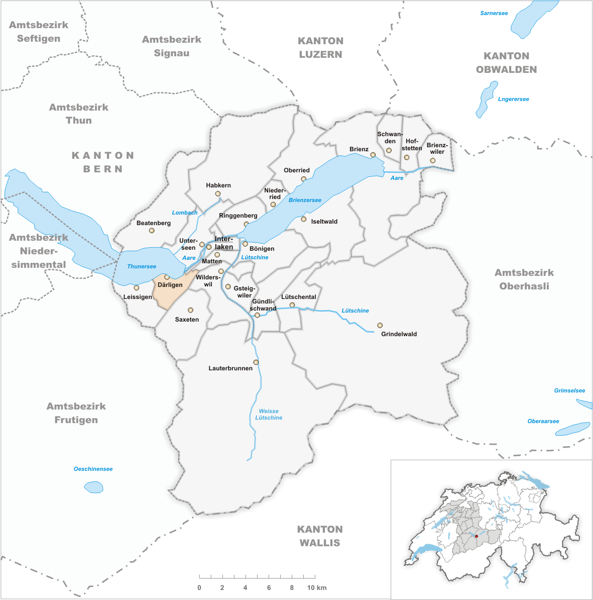 Municipality Därligen